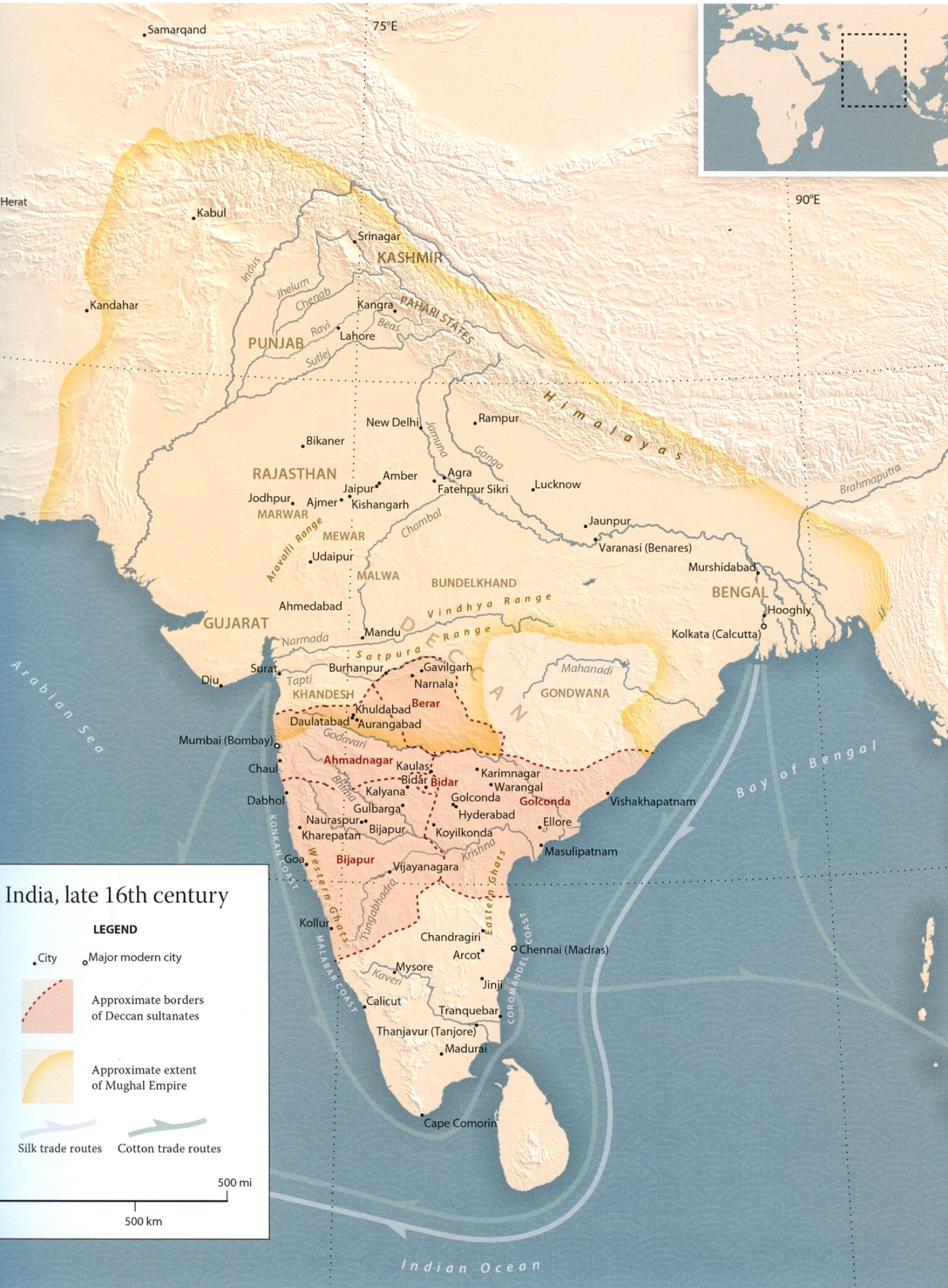 Map of the Deccan late 16th century.